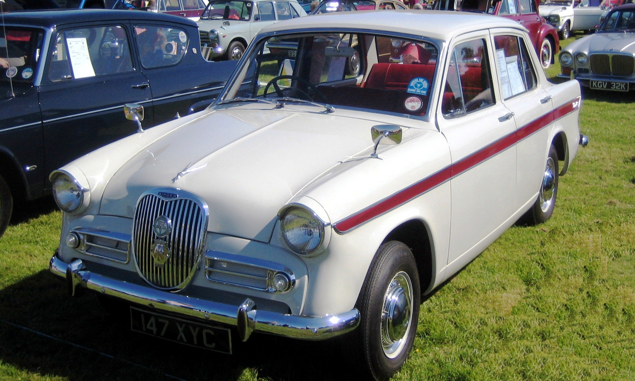 Singer Gazelle V version of Hillman Minx V